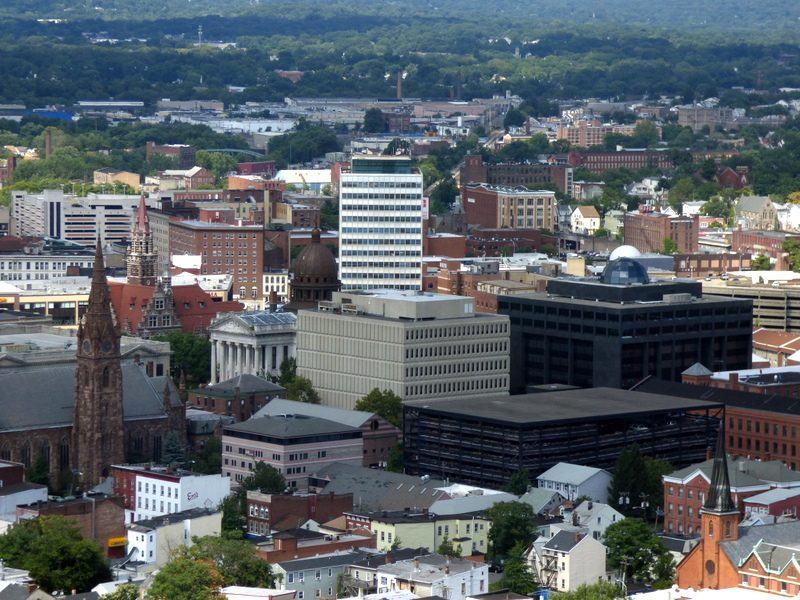 Paterson Downtown Commercial Historic District, Roughly bounded by Patterson, Ward and Gross Sts., and Hamilton Ave. Paterson